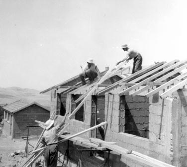 Caption: 1956. PAX men are putting up rafters on a house. Kenneth Nussbaum is on the ground, a Christian Arab is on the roof receiving rafters, while Carl Beyeler is nailing them. Citation: Mennonite Board of Missions. Photographs. Algeria Pax, 1955-1963. IV-10-7.2 Box 1 folder 27, photo #71. Mennonite Church USA Archives - Goshen. Goshen, Indiana.